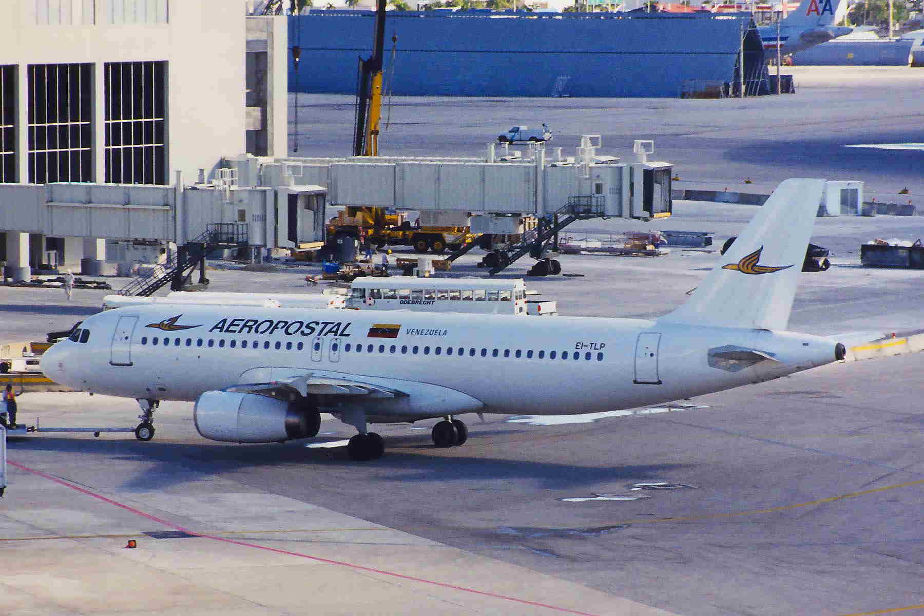 Leased from/op by Trans Aer